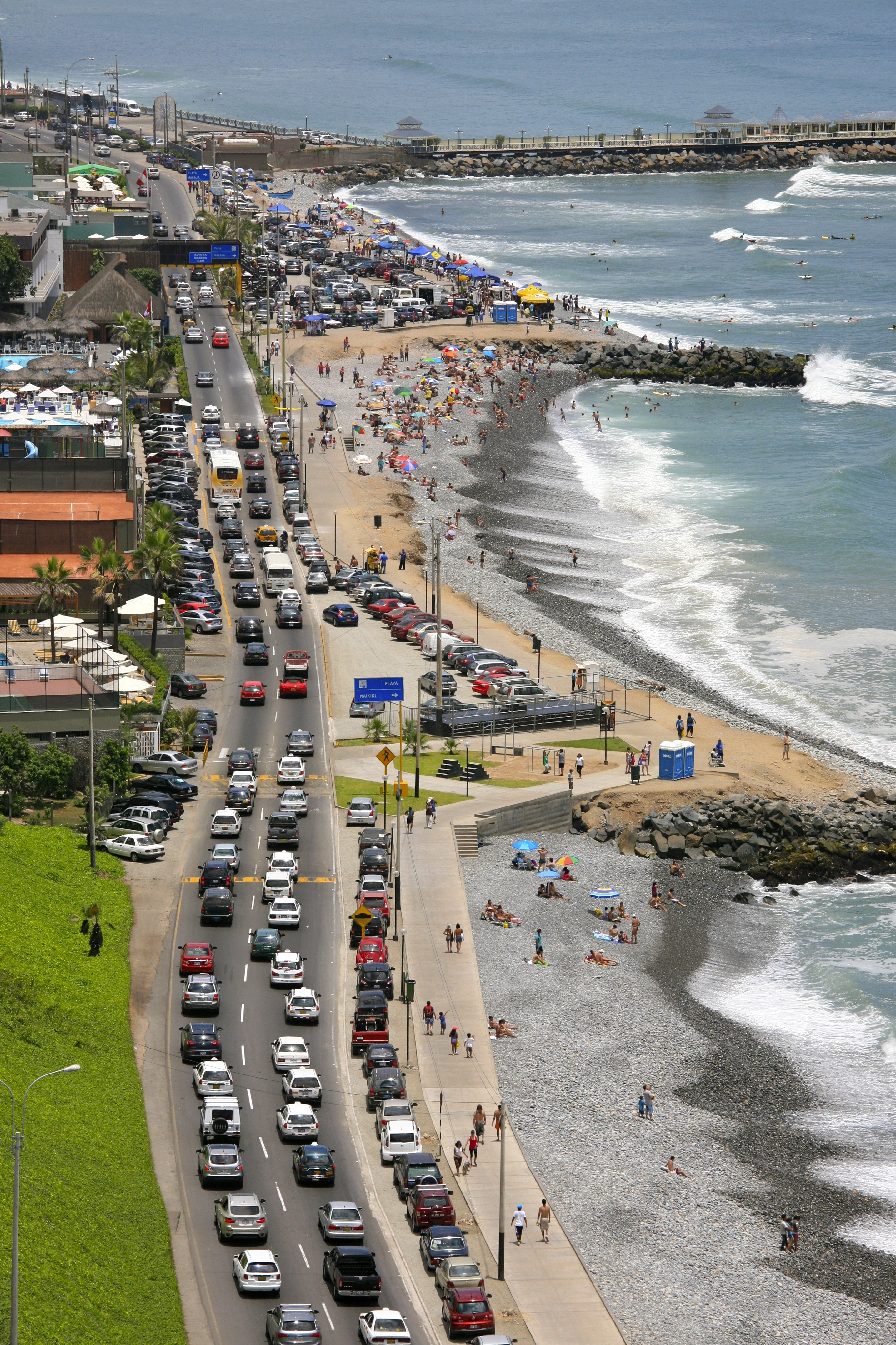 Traffic Jam at the Beach, Miraflores